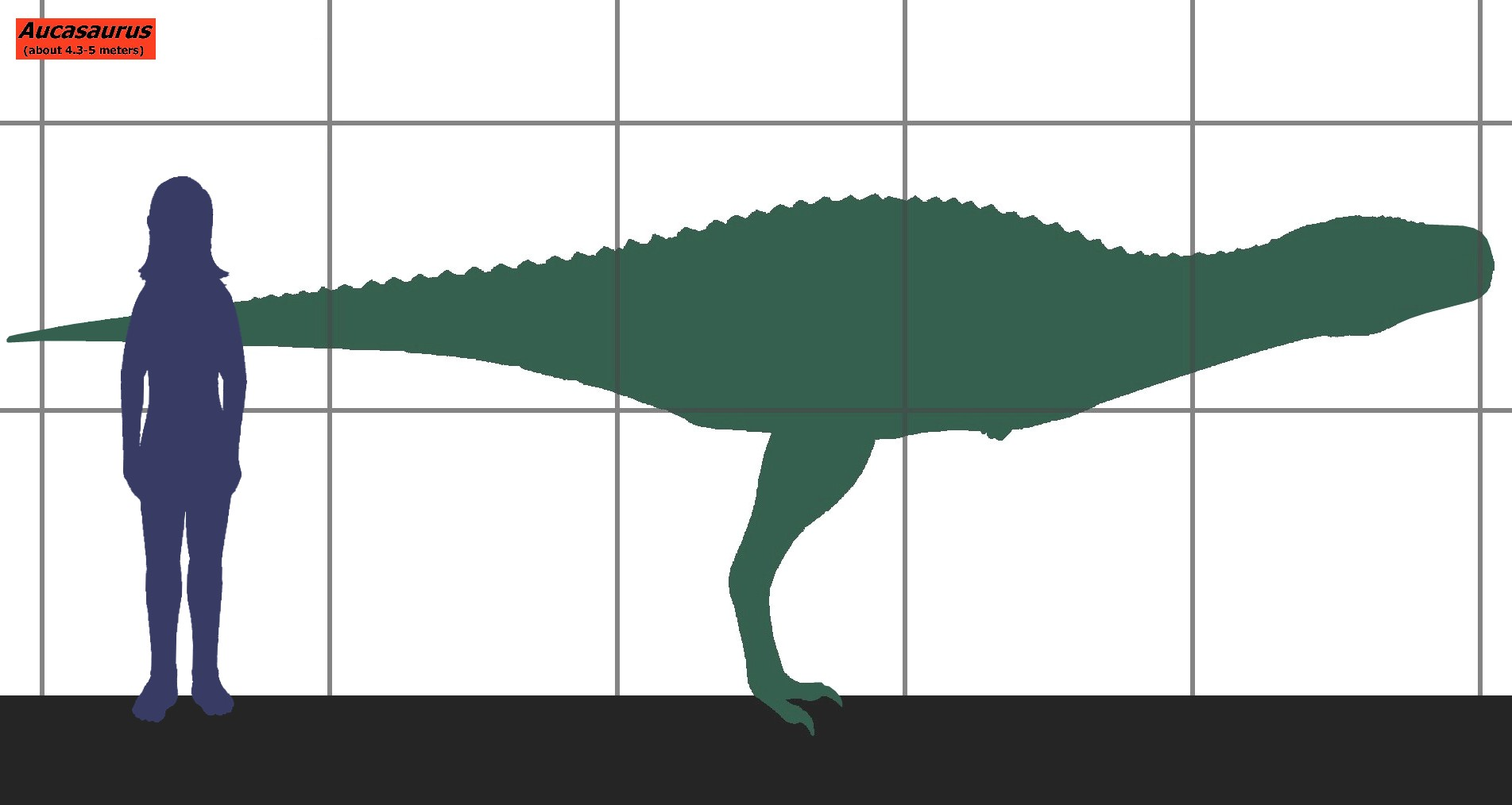 Size comparison between the carnivorous dinosaur Aucasaurus and a human.